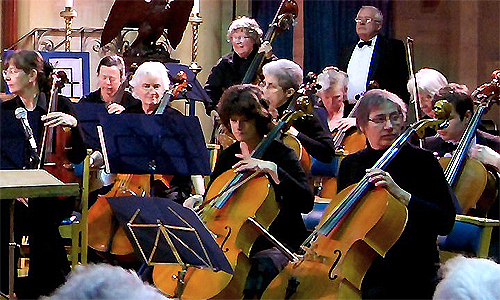 A digital photograph of the Hereford String Orchestra playing at their Spring Concert on the 27th March 2010 in the Holy Trinity Church in Hereford, UK.